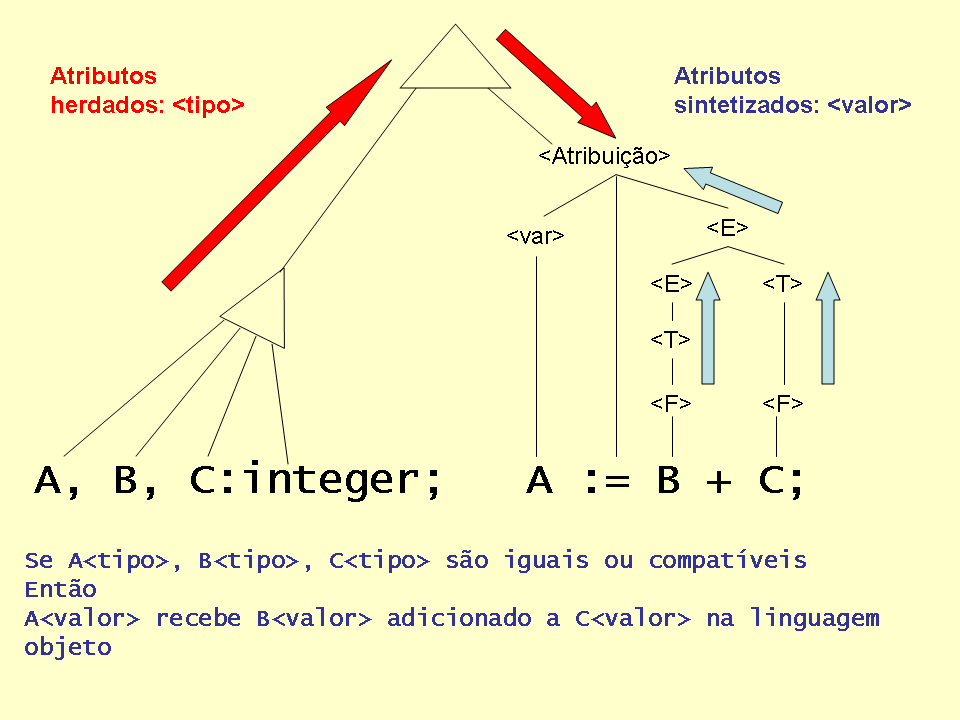 Attribute grammar